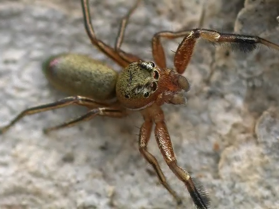 Male Tutelina elegans jumping spider. Still frame from video.